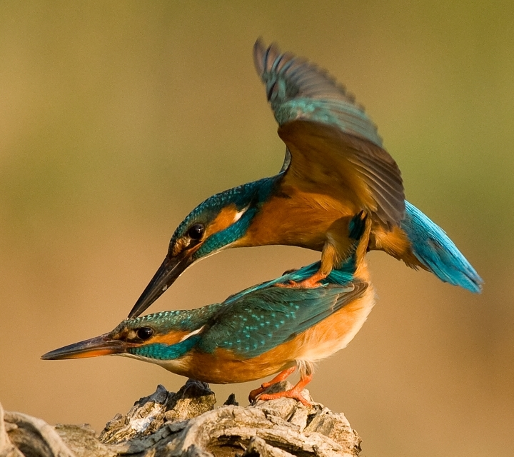 Alcedo atthis (mating), Gajary, Slovakia